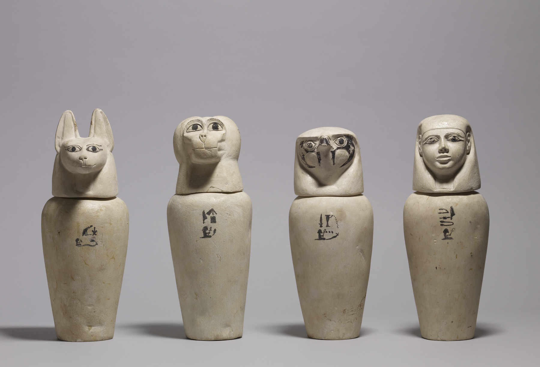 This set of canopic jars was made to contain the internal organs removed from the body during the mummification process. The four sons of the god Horus were believed to protect these organs. The jackal-headed Duamutef protected the stomach; the falcon-headed Qebehsenuef, the intestines; the baboon-headed Hapi, the lungs; and human-headed Imsety, the liver.